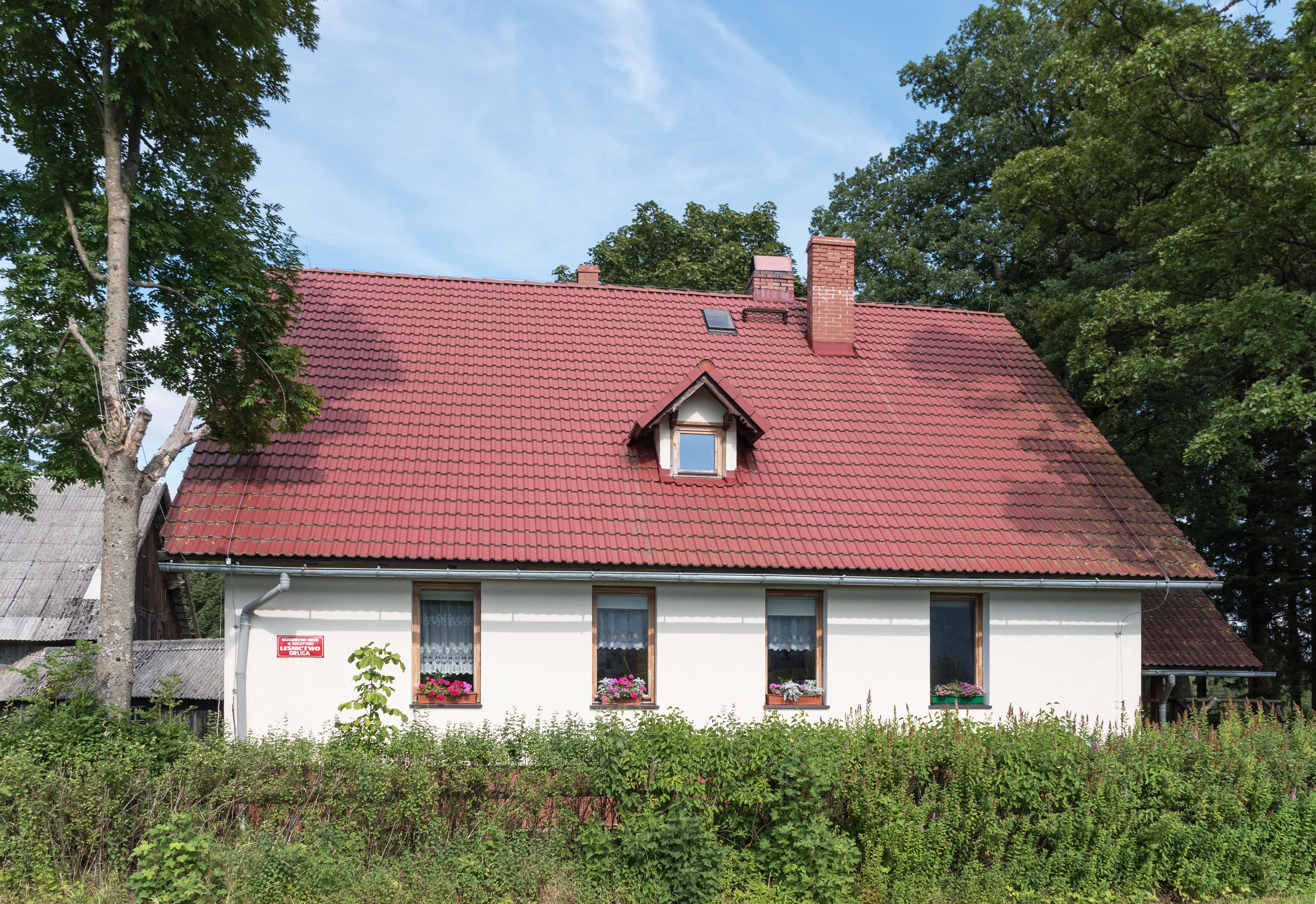 Forester's lodge in Lasówka